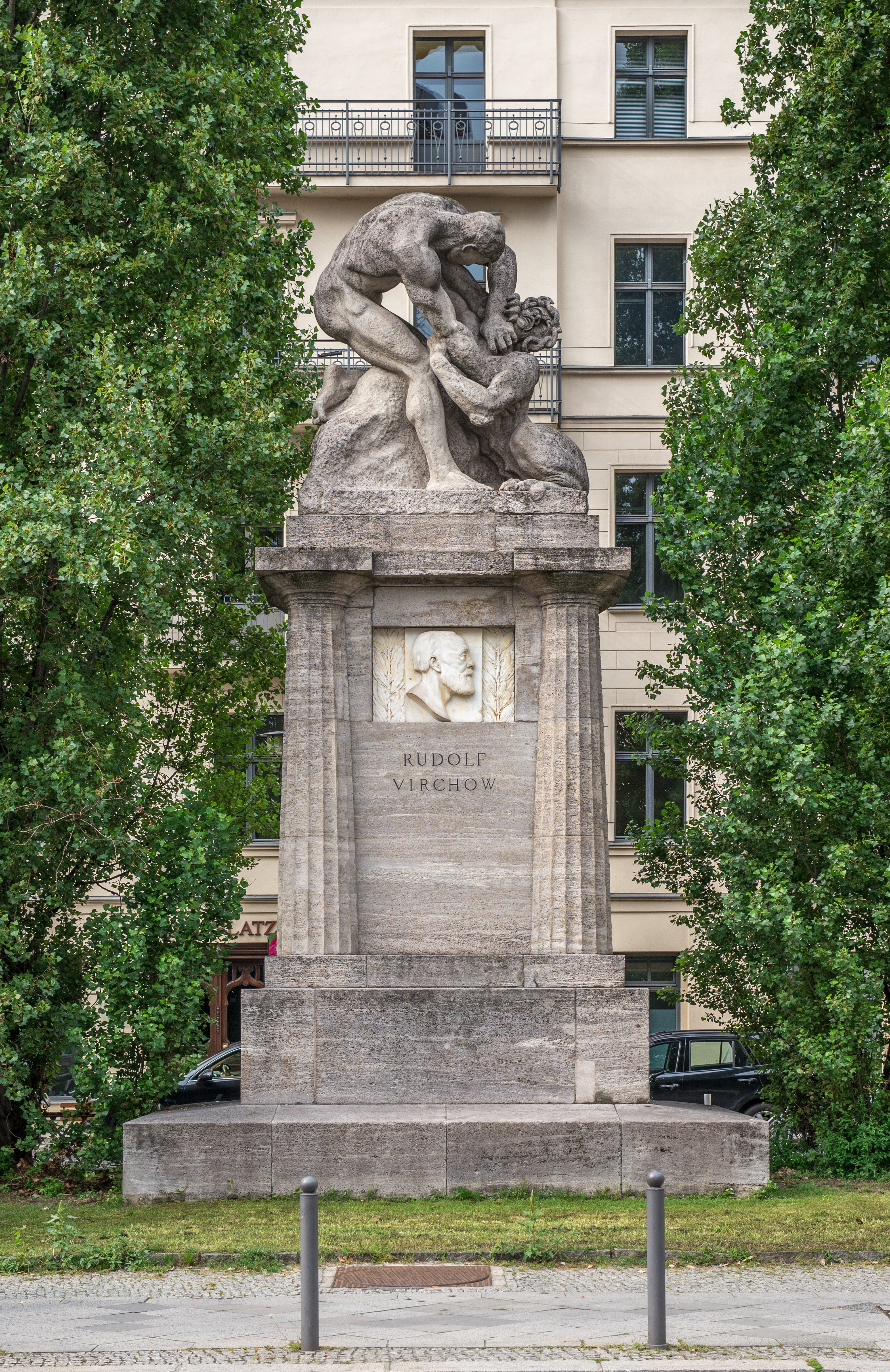 The Rudolf Virchow Memorial on Karlplatz in Berlin-Mitte. Es was created from 1906 to 1910 by Fritz Klimsch.